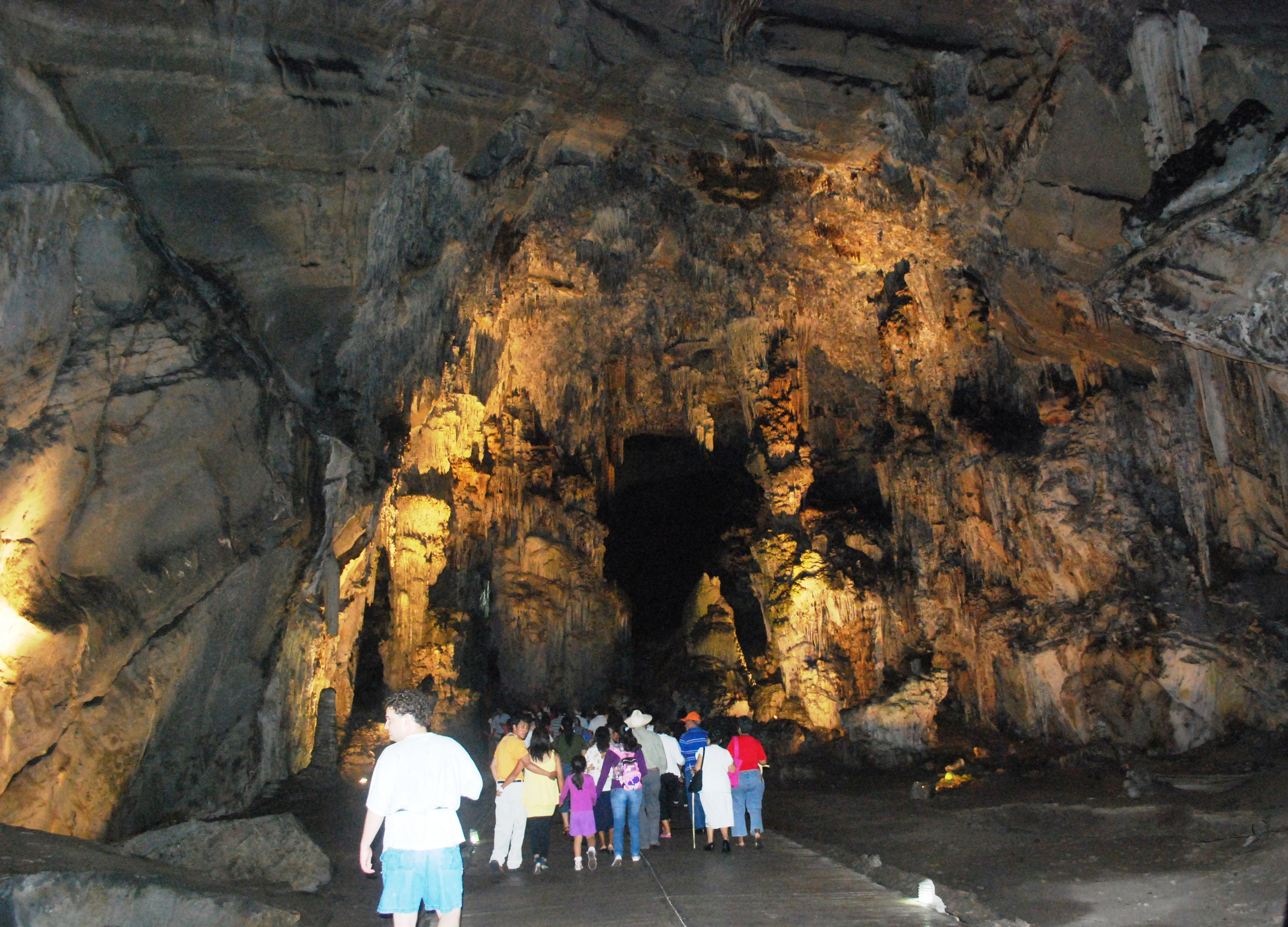 Exiting one of the salons through an opening in a rock wall. In Cacahuamilpa Caverns in Guerrero state, Mexico